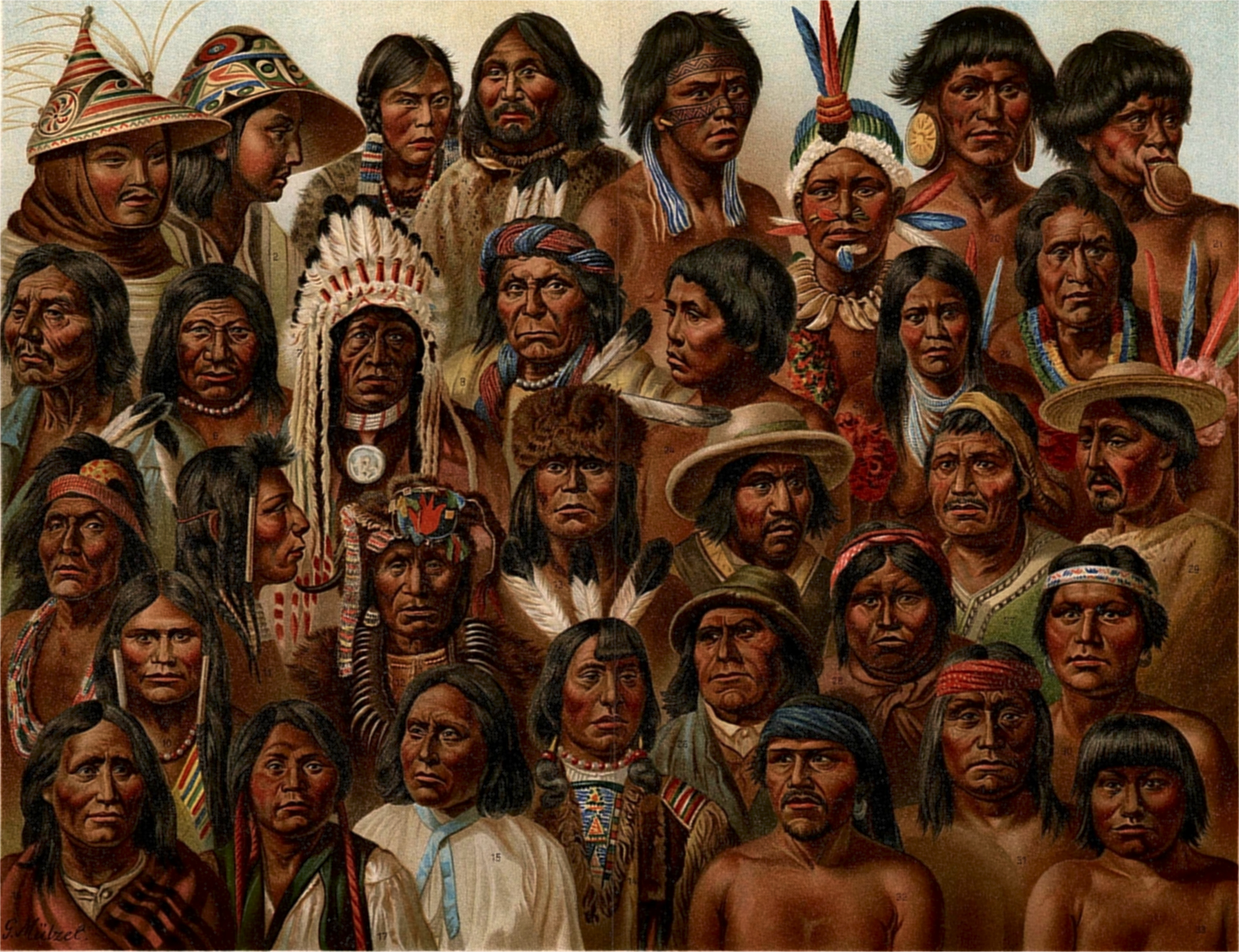 Native Americans 1. Aleut 2. Tlingit 3. 4. Inuit (woman and man) 5. 6. Crow Indian 7. Blackfeet 8. Ojibwa 9. 10. 11. Shoshone 12. Dakota Sioux 13. 14. Mandan 15. Apache 16. Pueblo 17. Mexican Indian 18. 19. Omaguas 20. 21. Botocudo (man and woman) 22. 23. Ticuna (man and woman) 24. 25. Peruvian from Cerro de Pasco 26. 27. 28. 29. Moxos people 30. 31. Patagonian 32. Mapuche 33. Fuegians